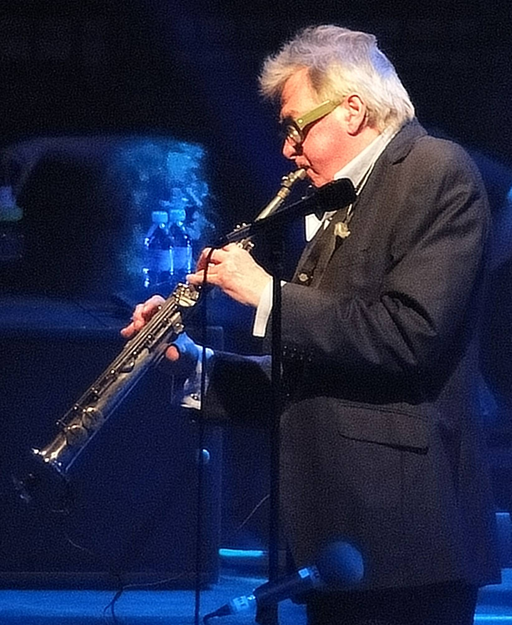 Roxy Music's Andy Mackay performing at the LG Arena, Birmingham, January 2011.